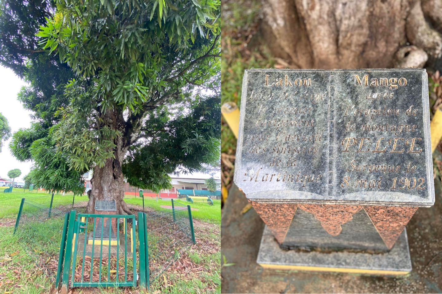 This place was named Lakou Mango as we can see on the commemorative stele.